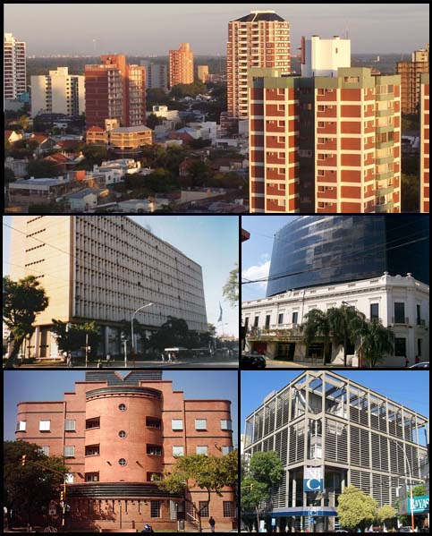 Image montage of Resistencia City, Argentina.